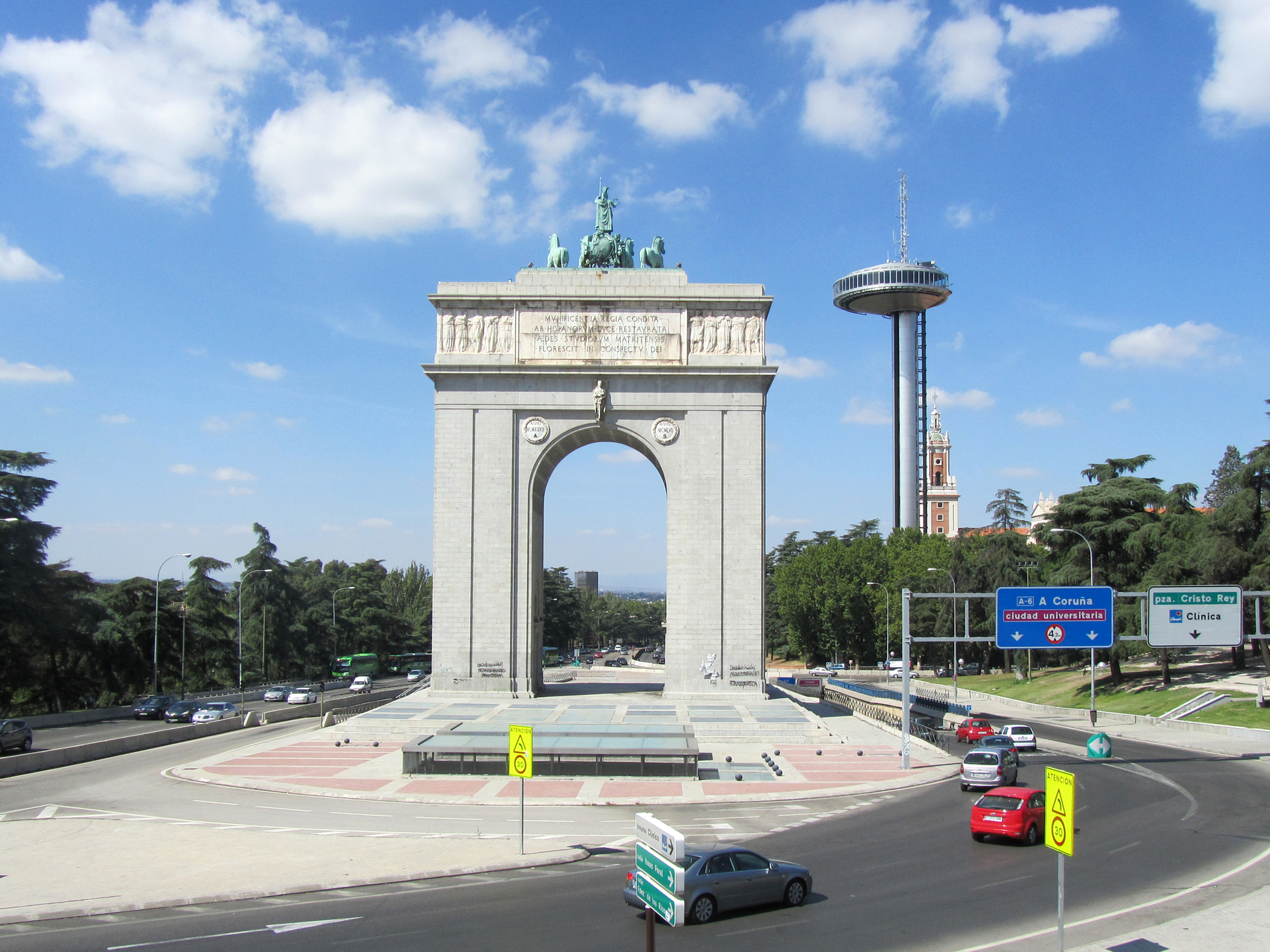 The Arco de la Victoria in Madrid. In the background the Faro de la Moncloa and the tower of the Museo de América